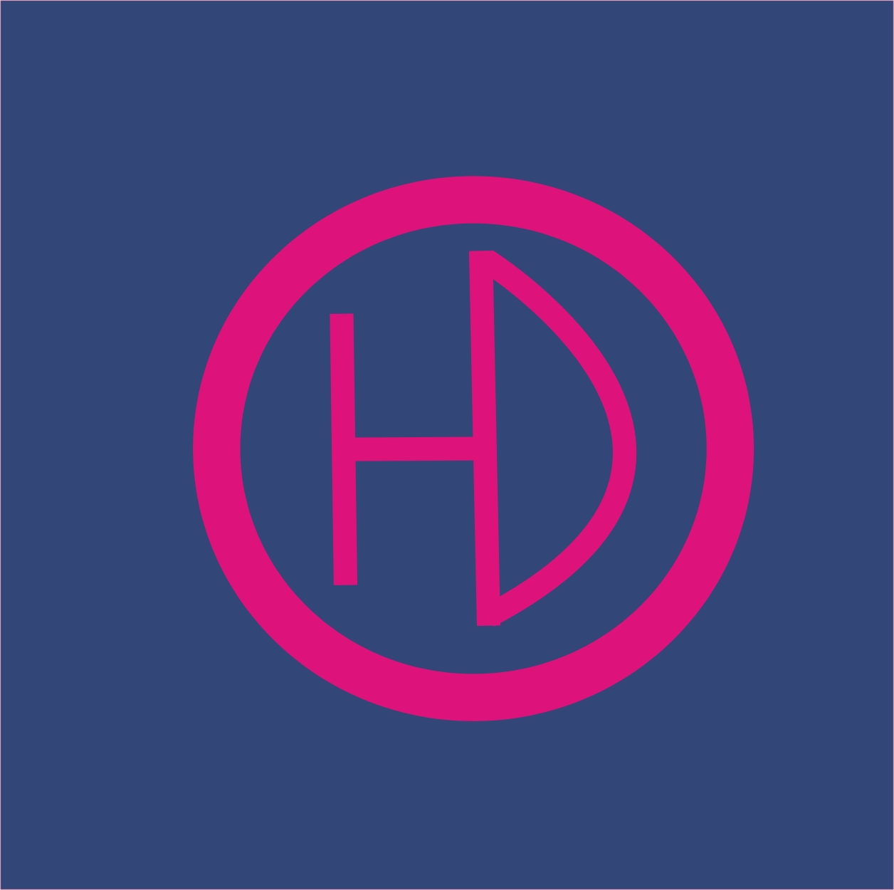 Coat of arms of the 51st (Highland) Division